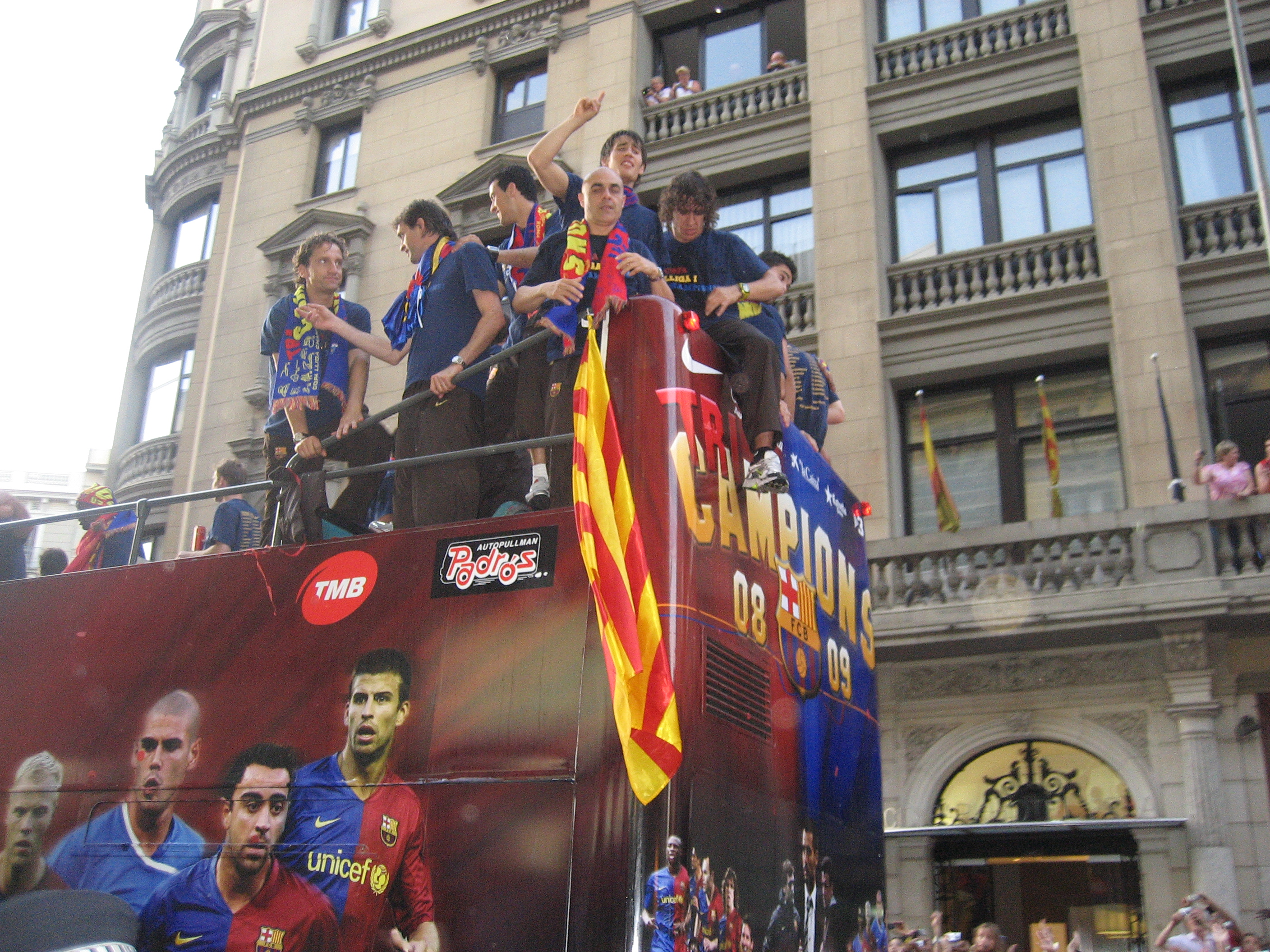 The FC Barcelona team take an open-top bus around the streets of the city to celebrate winning the 2009 UEFA Champions League.